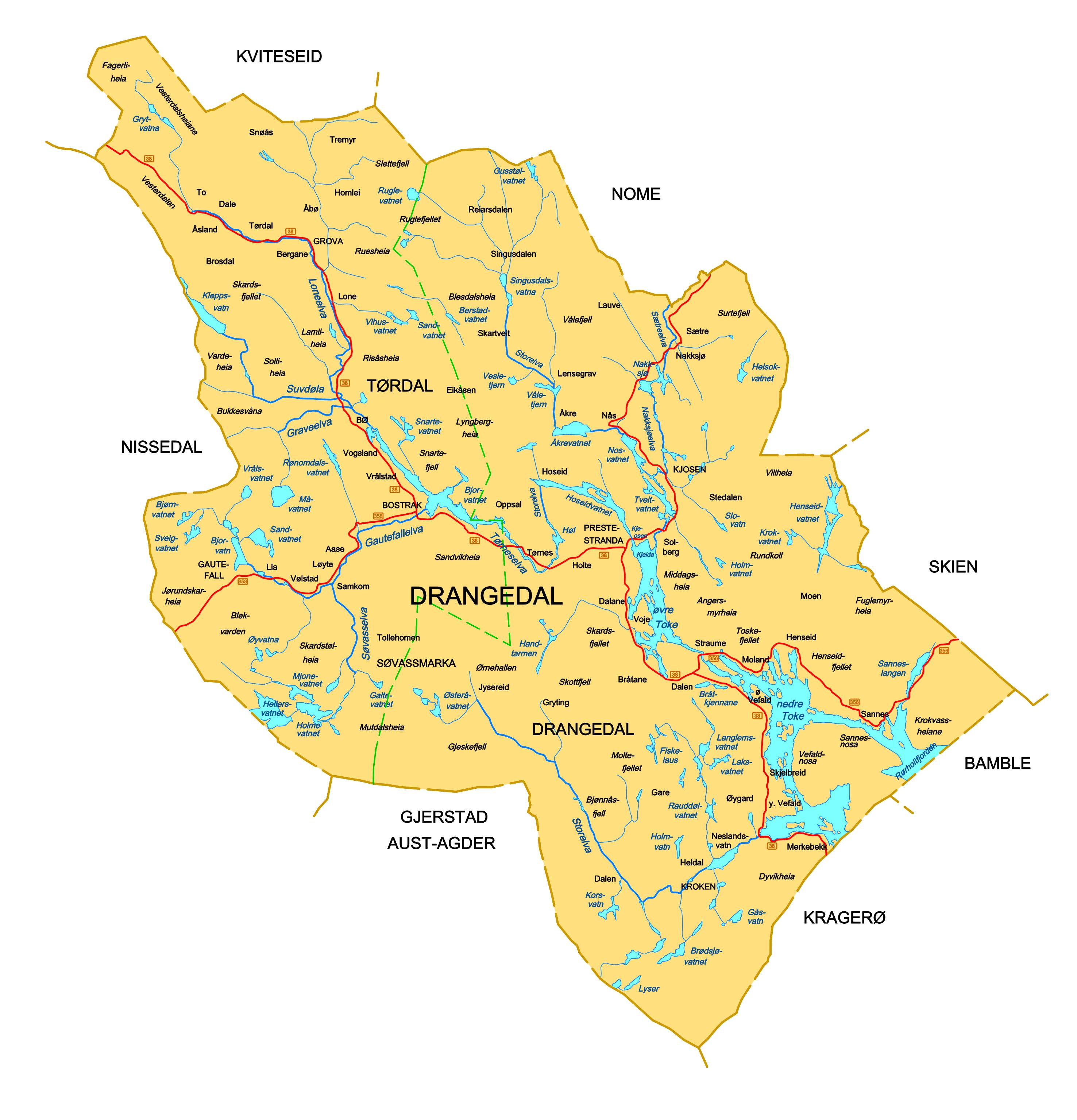 Map Drangedal, Telemark, Norway